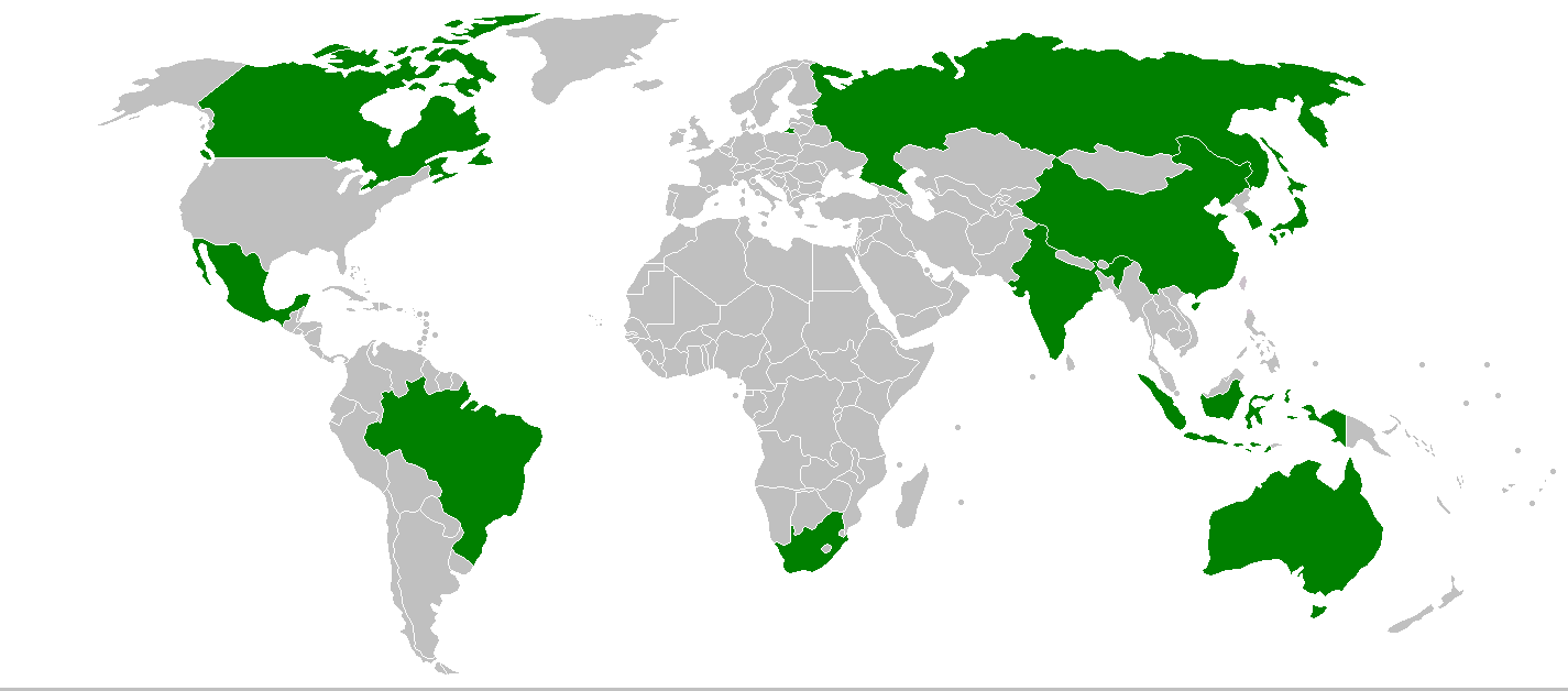 The eleven countries that will become a economic power in the XXI century in the opinion of Jacques Attali